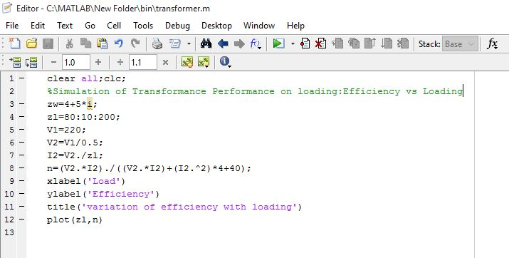 Simulation of Transformer Performance on loading